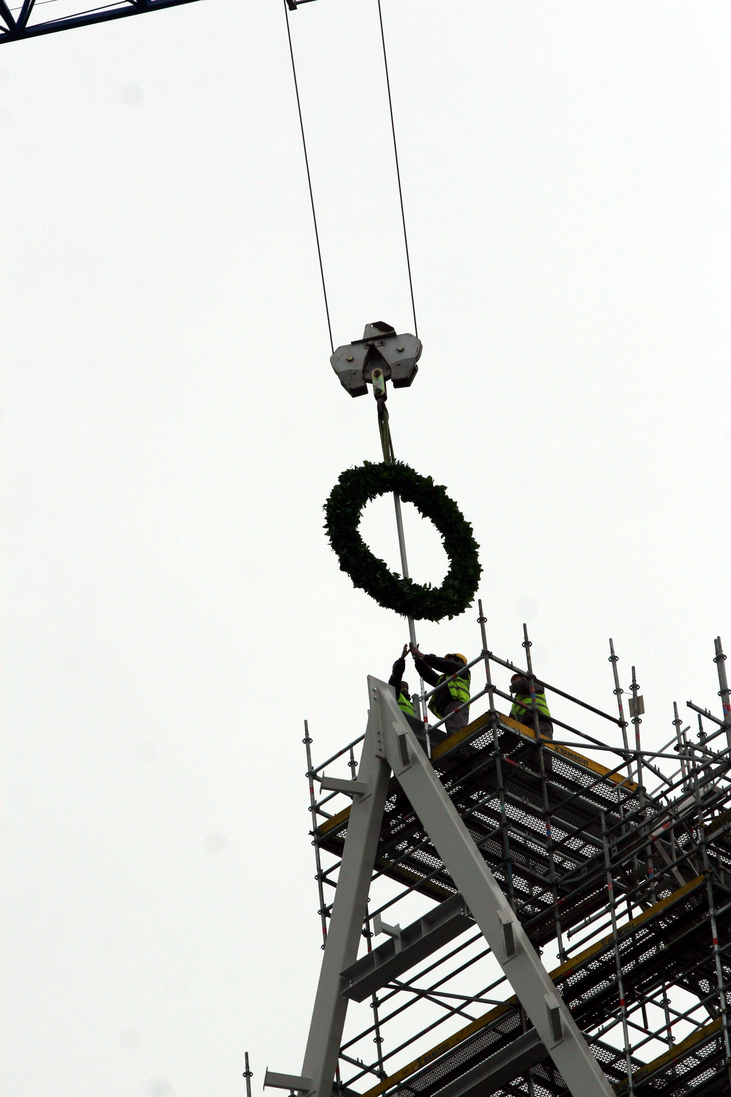 2011.gada 3.maijā Ministru prezidents Valdis Dombrovskis piedalās Latvijas Nacionālās bibliotēkas spāru svētkos. Foto: Toms Kalniņš/ Valsts Prezidenta kanceleja Prime Minister Valdis Dombrovskis participated in the ridgepole celebration of the National Library of Latvia. Photo: Toms Kalnins/ Chancery of the President